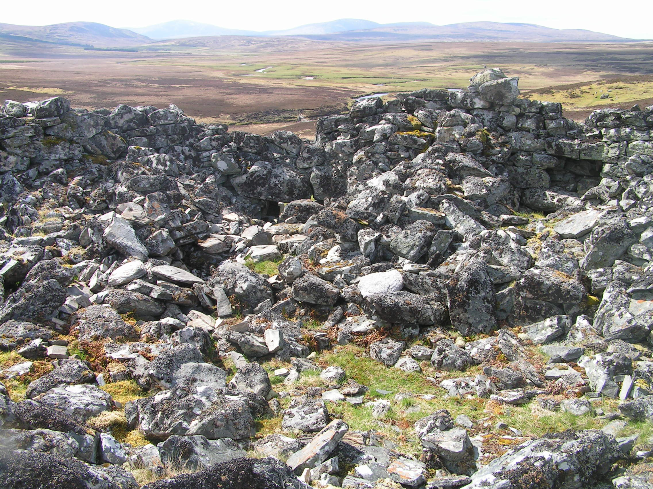 Feranach broch.